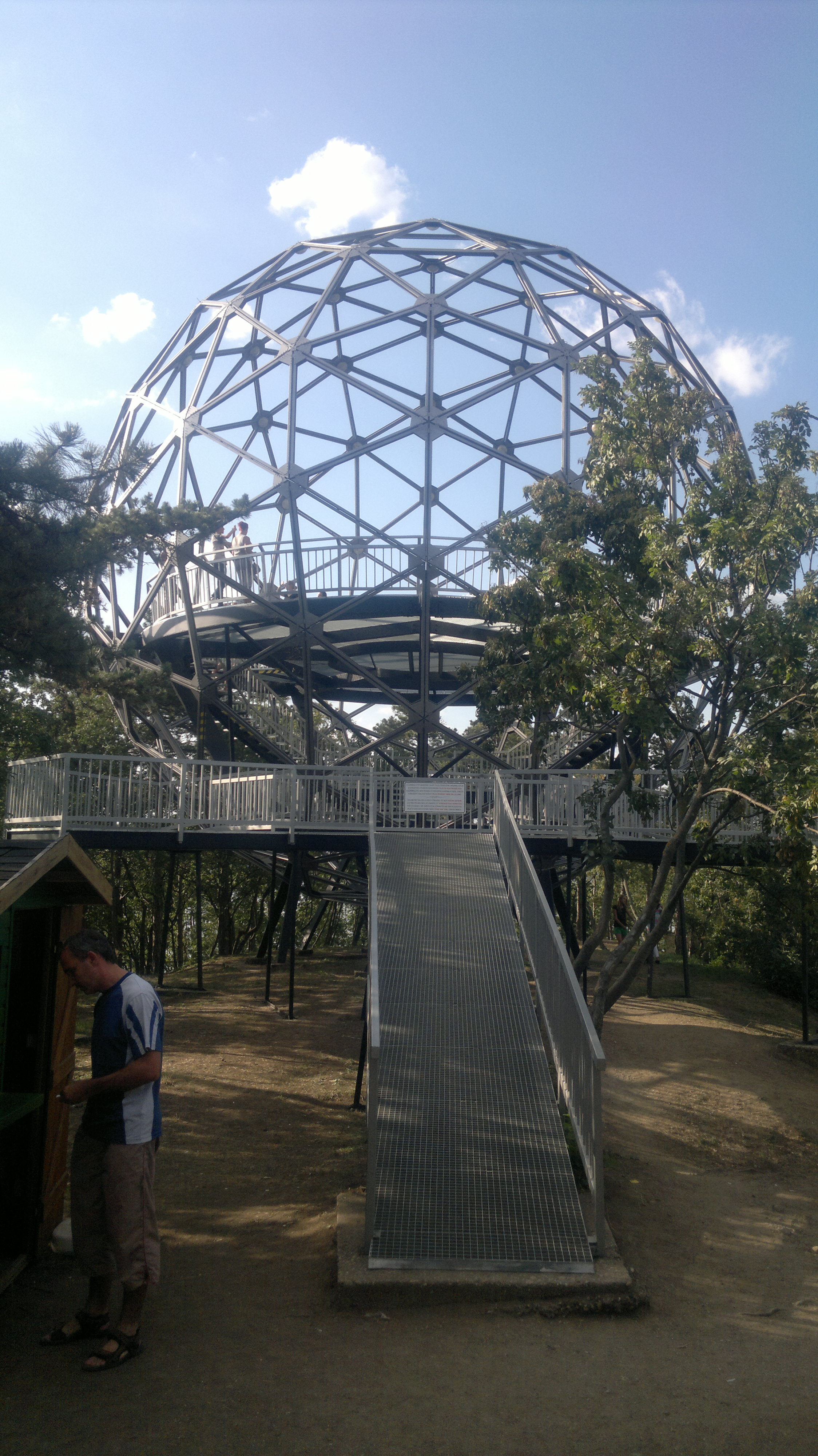 Observation tower in Balatonboglár, Hungary